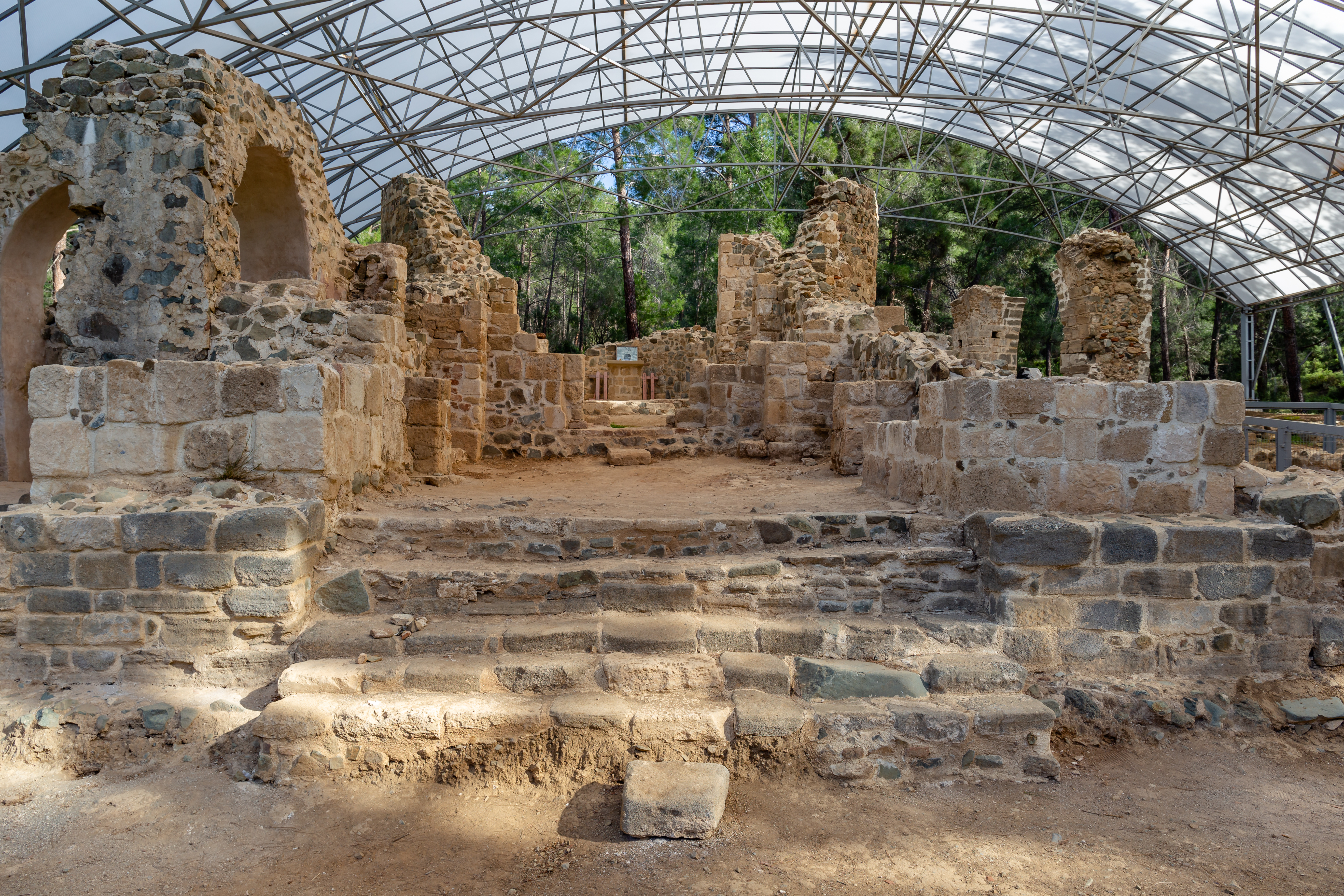 Ruins of Ghalia Monastery in the village Gialia, Paphos District, Cyprus